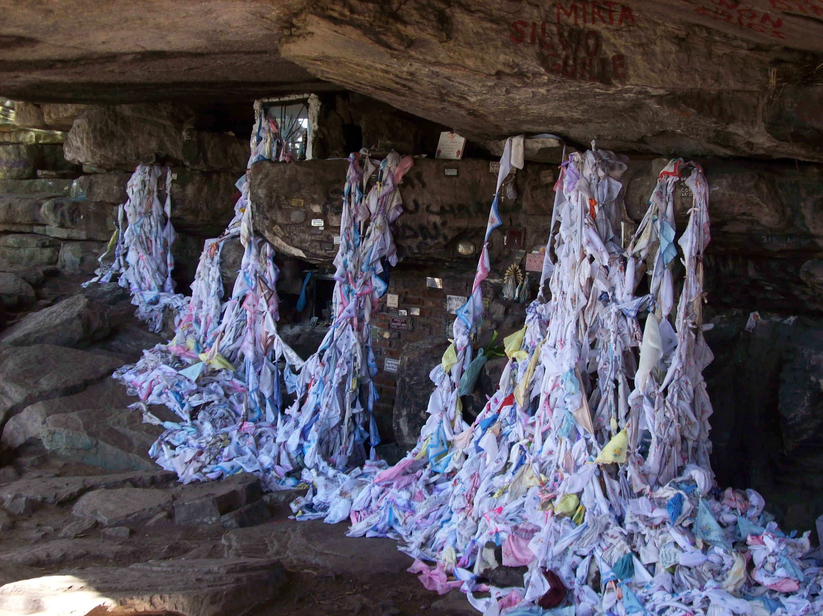 Gruta de los Pañuelos located at Sierra de los Padres, Buenos Aires Province, Argentina.